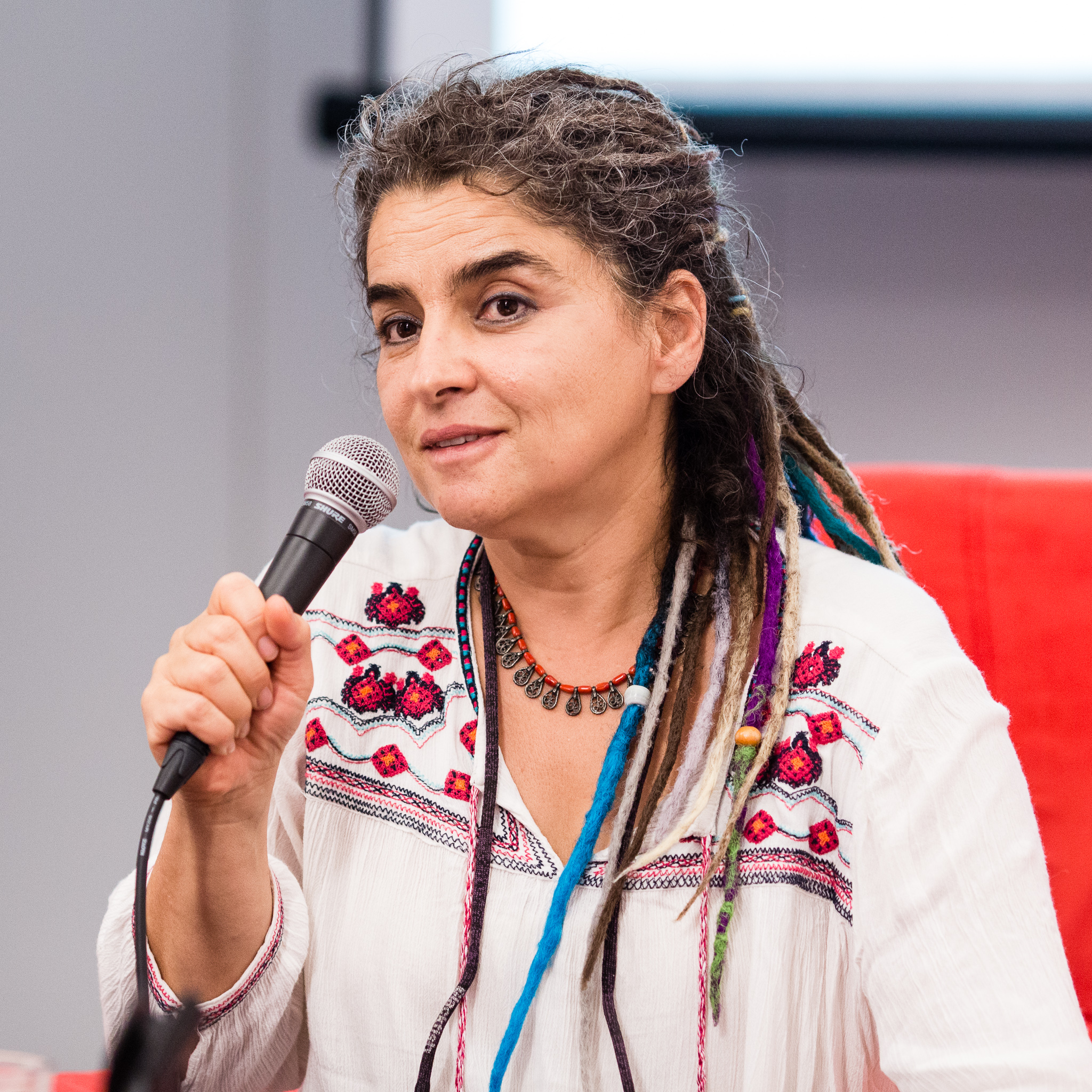 Ayşegül Çelik on Authors’ Reading Month 2018, Wrocław, Poland